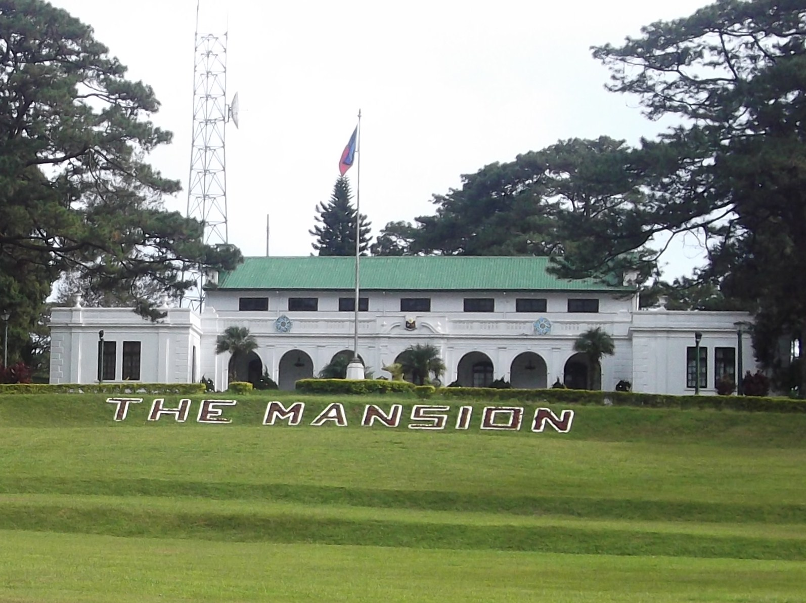 The Mansion House in Baguio city, Philipines